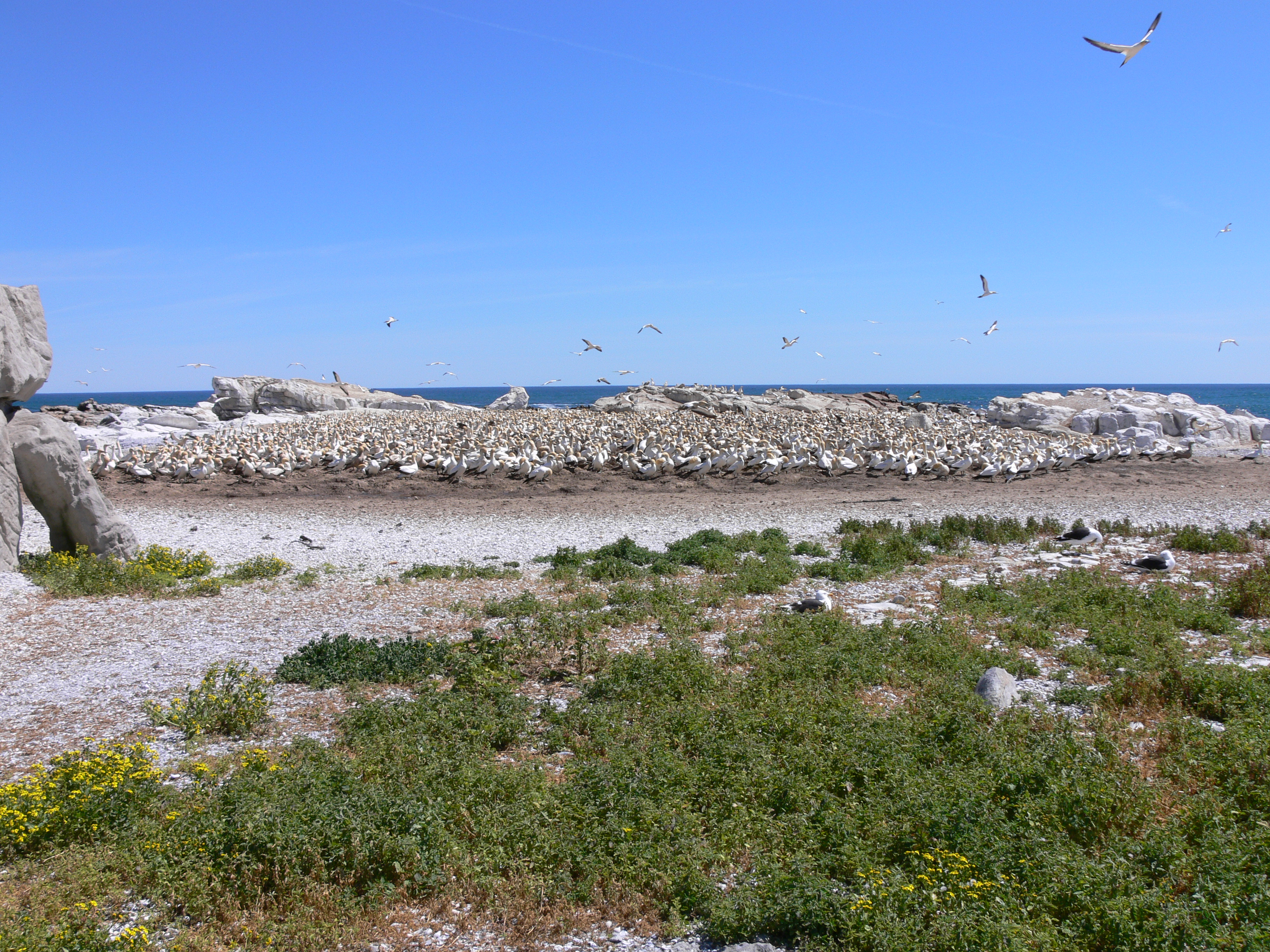 Colony Cape Gannet (Morus capensis), Bird Island Nature Reserve, Lamerts Bay, Western Cape, South Africa